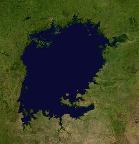 Lake Victoria, bordering Tanzania, Uganda, and Kenya, as seen from space in a composite NASA satellite photo. This image was cropped from Image:Africa satellite plane.jpg.